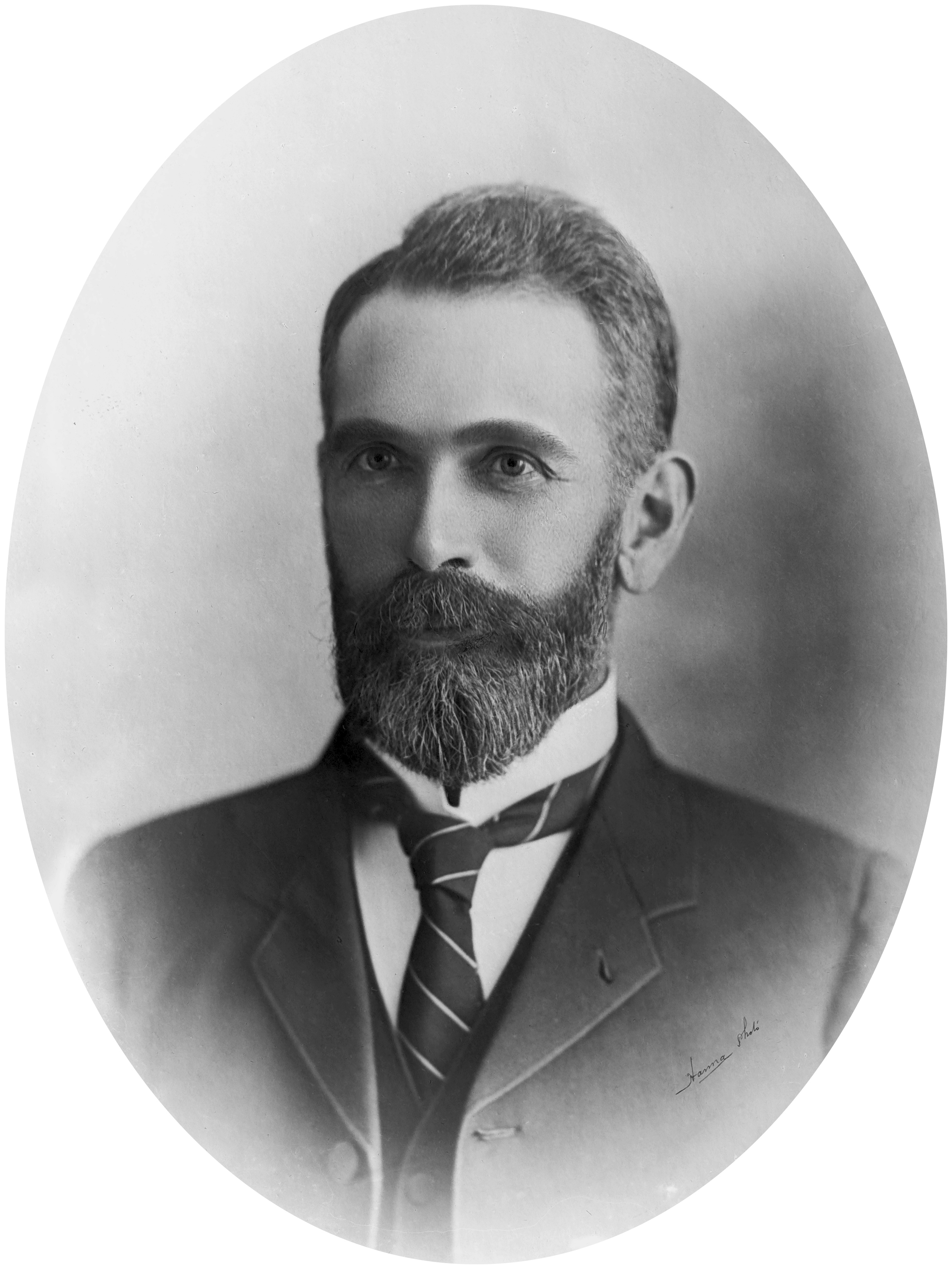 Portrait of James McCosh Clark, taken between 1885 and 1889, by John R Hanna. The source says the photo was taken between 1885 and 1898, but given that Hanna was an Auckland photographer and Clark emigrated to England in 1889, the photo was thus taken between 1885 and 1889.